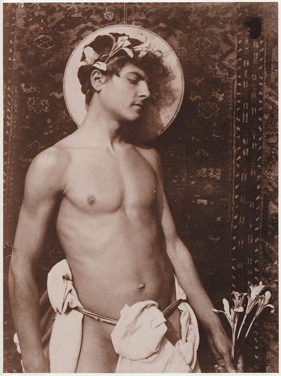 Wilhelm von Plüschow (1852-1930) - "The Christian martyr". Shot in Rome around 1900/1907. Catalogue number: 8503. This image has been partially published in KLARY 'La photographie de nu', 1906 pl. XXIV